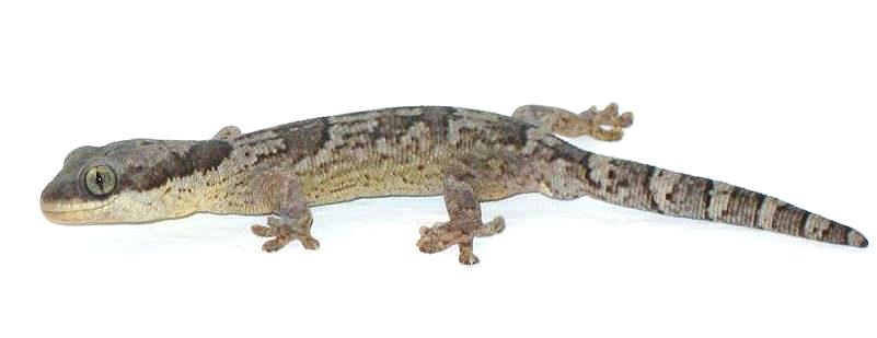 Homopholis fasciata, gecko from Tanzania Photo: Tomas Cerman 2007 Cropped by Ali'i from File:Homopholis fasciata1.JPG on 15:00, 13 March 2008 (UTC)